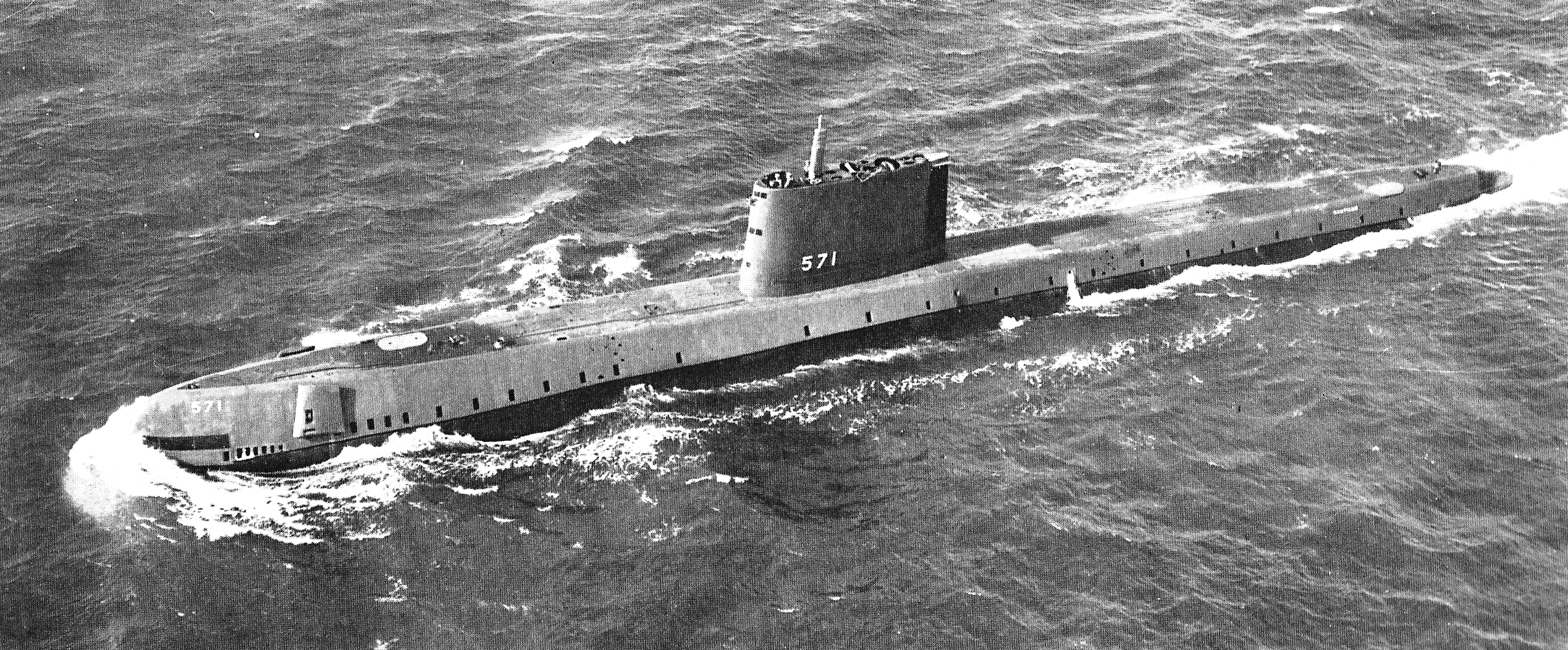 USS Nautilus (SS-571), the U.S. Navy's first nucelar-powered submarine, on its initial sea trials, 10 January 1955.